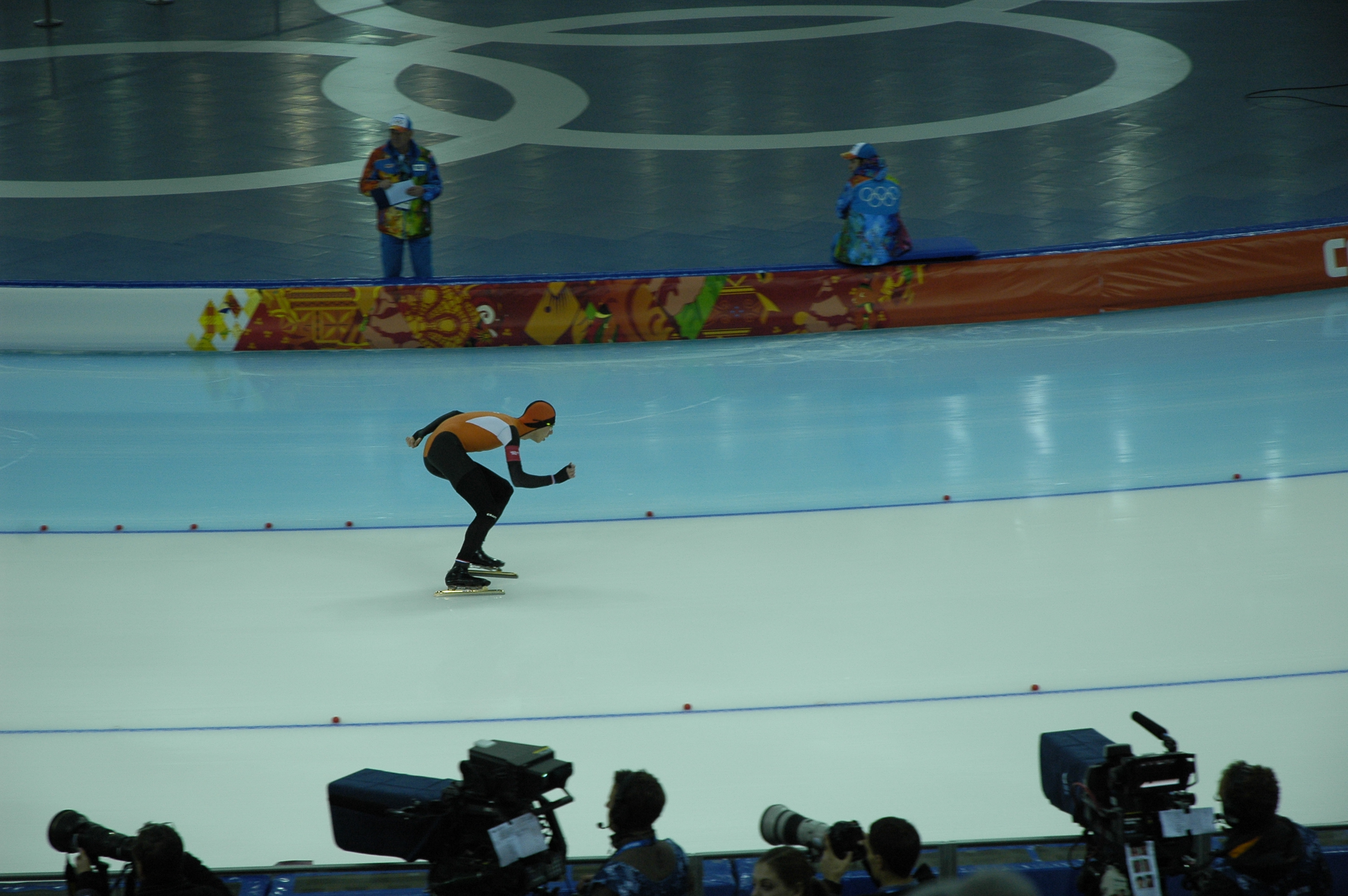 Men's 10000 m, 2014 Winter Olympics